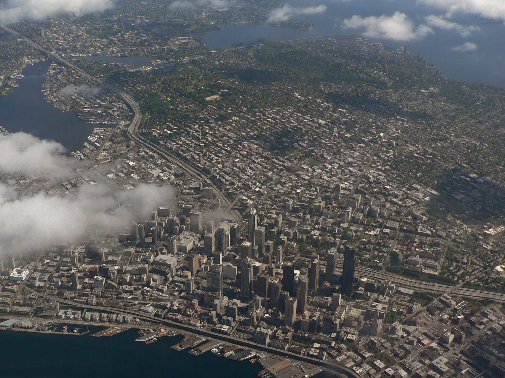 Downtown; to the left of that is South Lake Union and above that is Eastlake, the north part of Capitol Hill and Montlake; above Downtown is First Hill, the Central District, and Madison Park (and to the right of Madison Park, a bit of Madrona); Elliot Bay (foreground); Lake Union, Portage Bay, the Montlake Cut (and north of that the University District), Union Bay and Lake Washington (left to right at top) (Seattle, Washington)